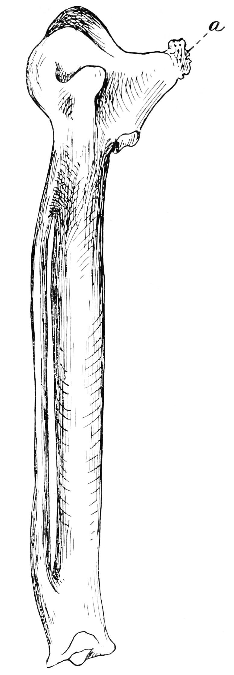 Left carpo metacarpus from the hand of an extinct swan (Olor paloregonus = Cygnus paloregonus) from Oregon